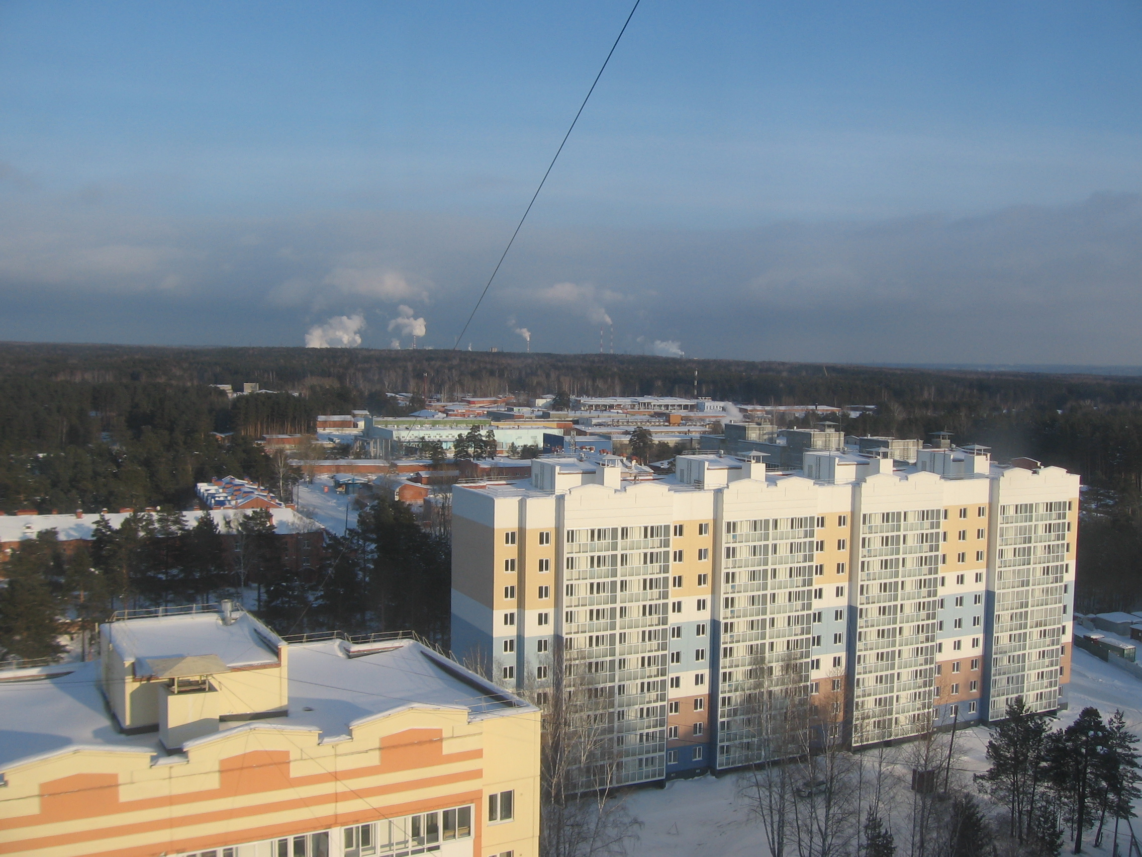 Tomsk Petrochemical Plant